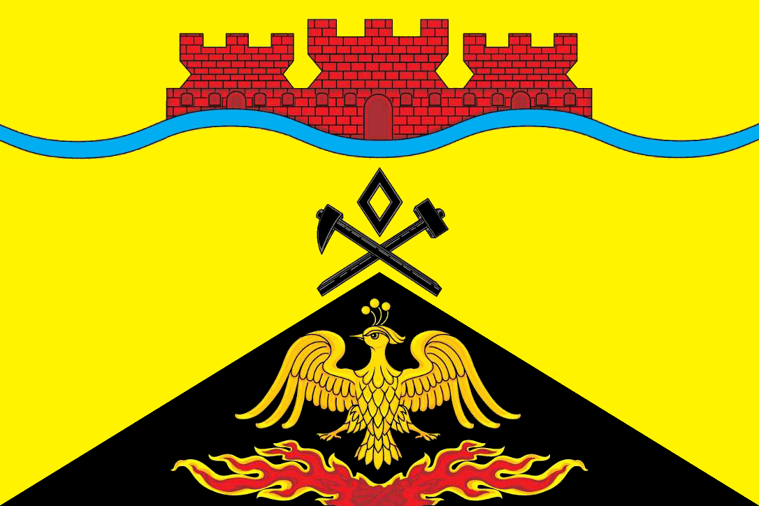 Flag of Shakhty, Rostov Region, Russia